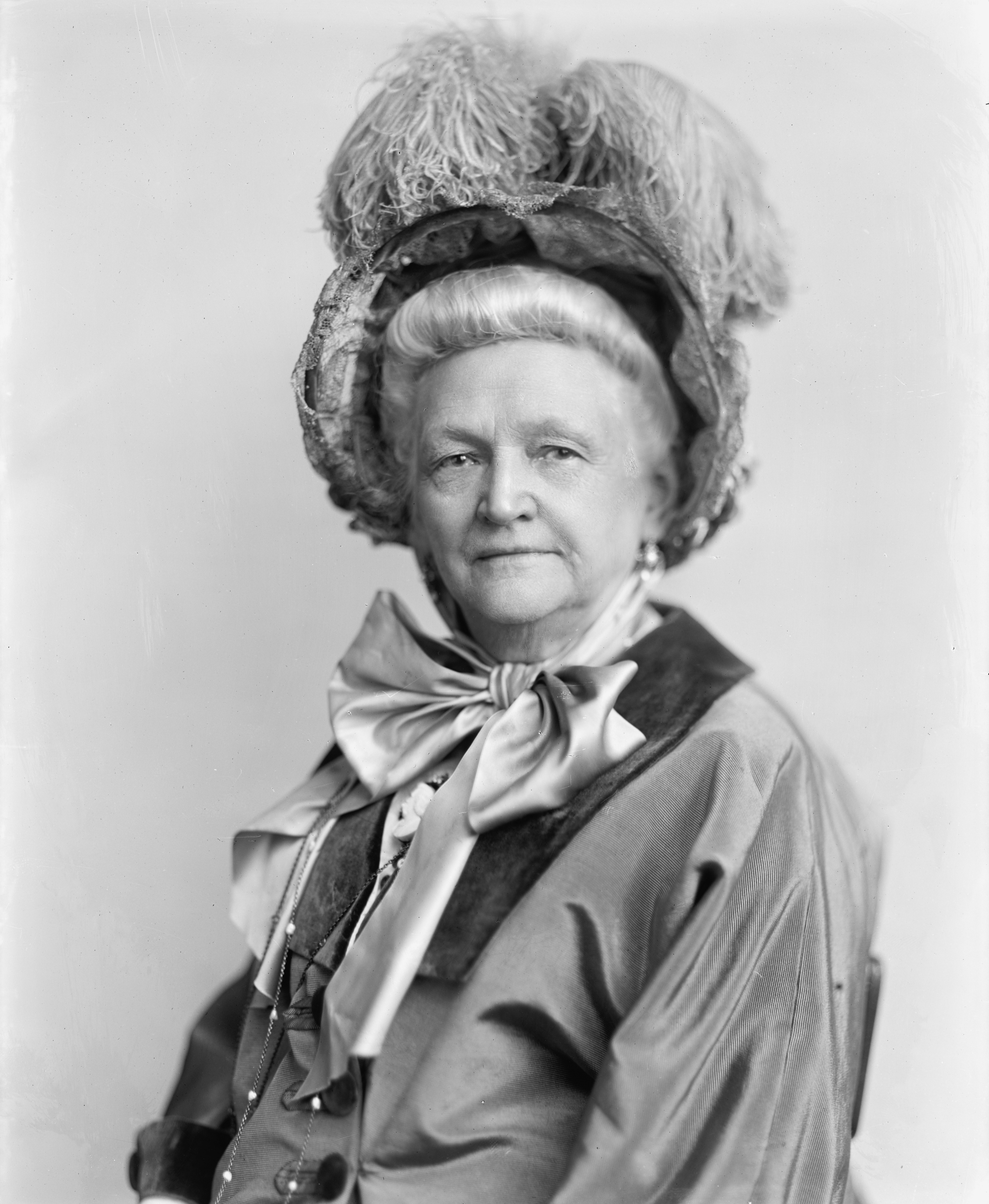 Title: LOGAN, JOHN A., MRS. Abstract/medium: 1 negative : glass ; 8 x 10 in. or smaller